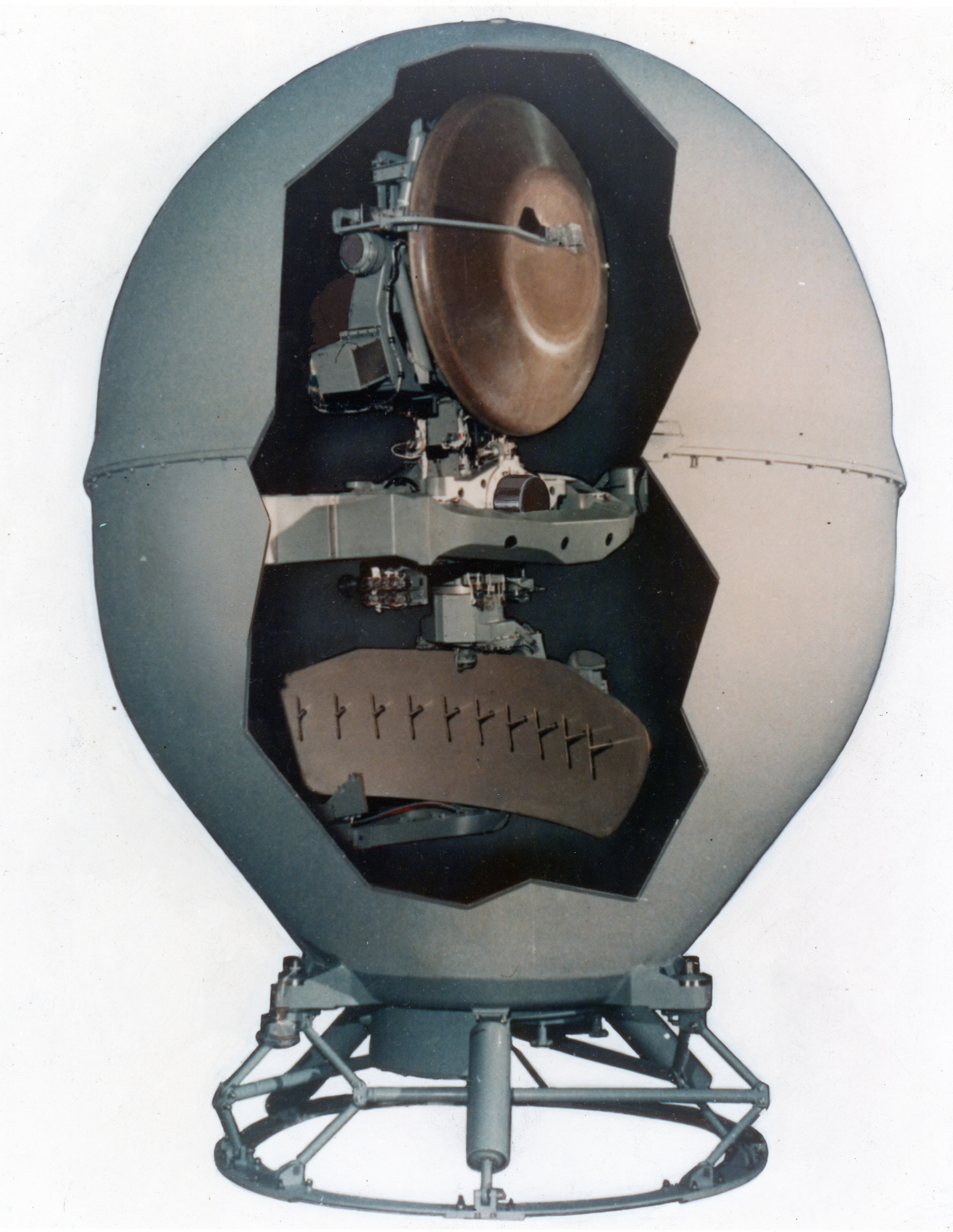 MK-92 CAS Radar System cross sectional view.